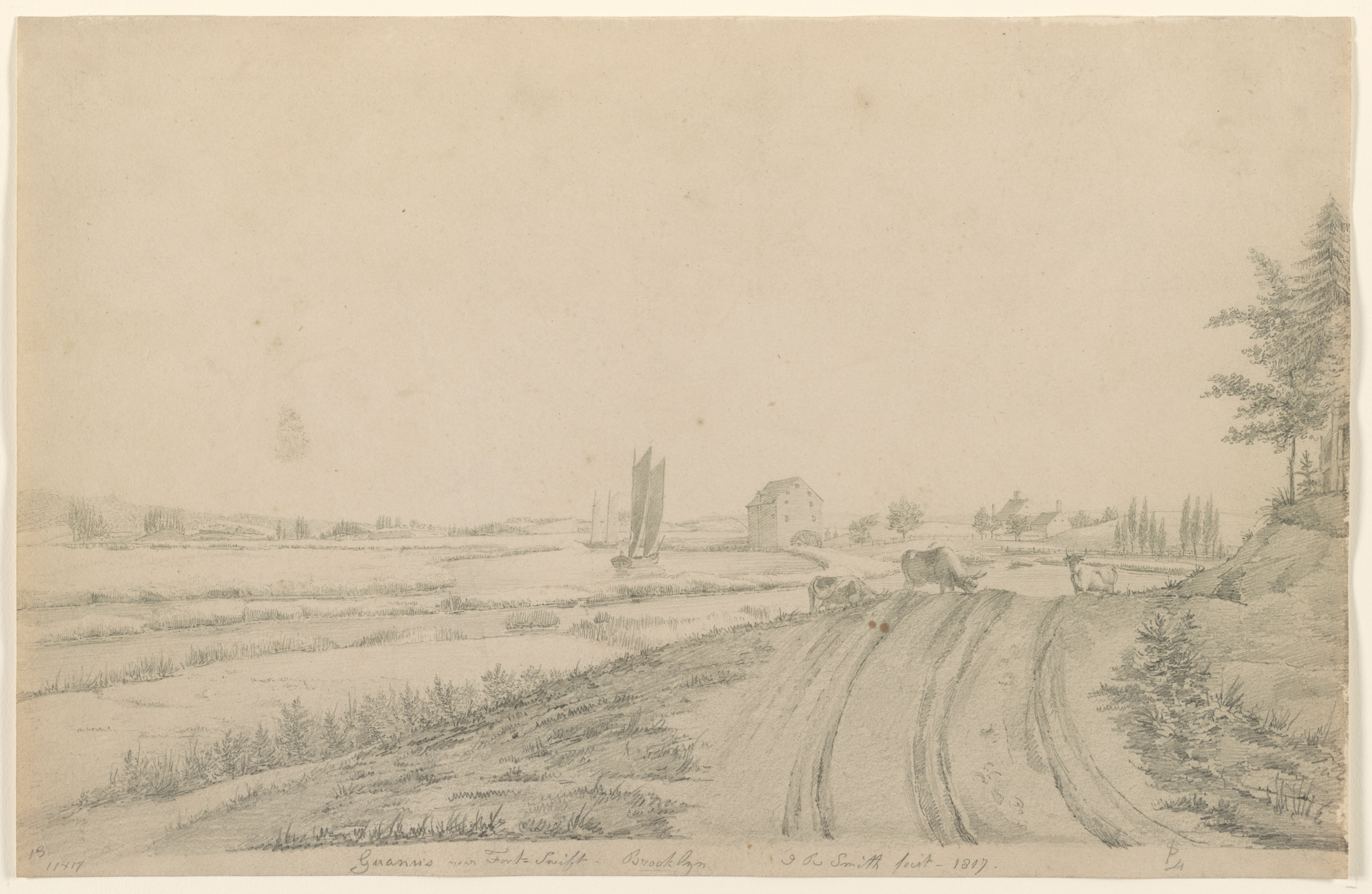 Title: Guann's near Fort - Swift, Brooklyn / J.R. Smith, fecit., 1817. Abstract/medium: 1 drawing : graphite ; 28.1 x 43.3 cm (sheet).